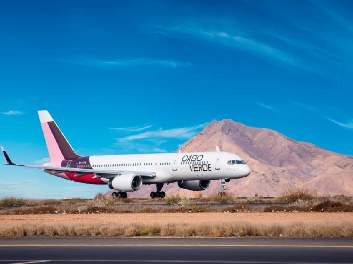 CCG on Sal